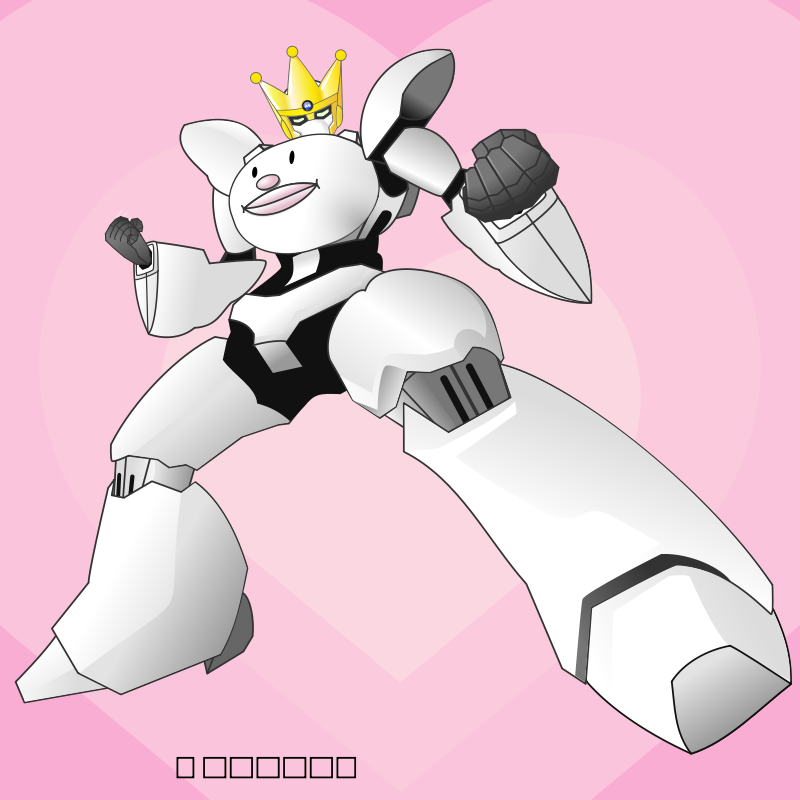 Mecha